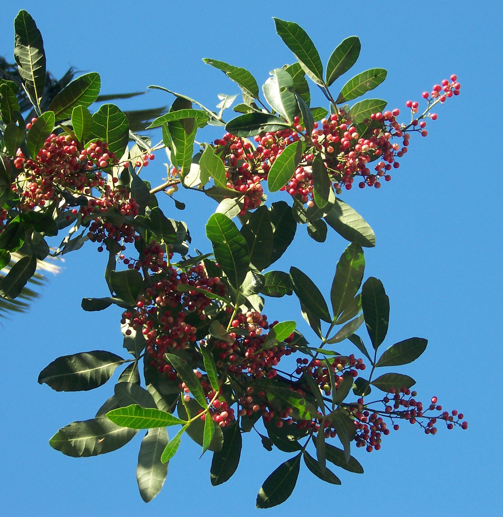 fruits of Schinus terebinthifolius